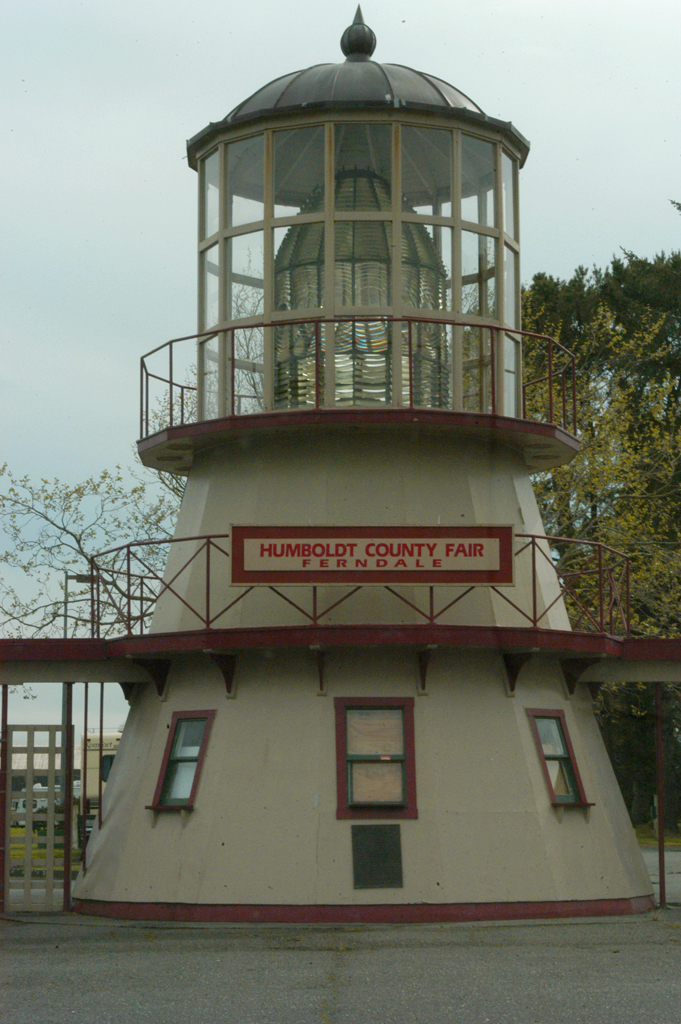 View of the original Fresnel Lens from the Cape Mendocino Lighthouse is displayed in a full-scale replica of the lighthouse at the Humboldt County Fairgrounds.